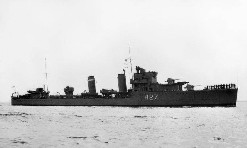 British destroyer HMS Electra underway, at sea. Members of the crew are on parade on deck.